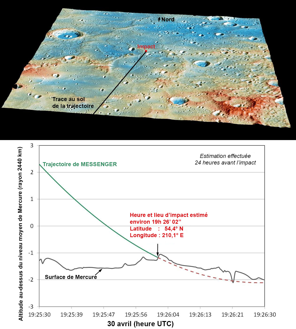 PIA19443: Details of MESSENGER's Impact Location These graphics show the current best prediction of the location and time of MESSENGER's impact on Mercury's surface, as of 24 hours before the impact. Those current best estimates are: Date: 30 April 2015 Time: 3:26:02 pm EDT (19:26:02 UTC) Latitude: 54.4° N Longitude: 210.1° E Traveling at 3.91 kilometers per second (over 8,700 miles per hour), the MESSENGER spacecraft will collide with Mercury's surface, creating a crater estimated to be 16 meters (52 feet) in diameter. View this image to learn about the named features and geology of this region on Mercury. Instruments: Mercury Dual Imaging System (MDIS) and Mercury Laser Altimeter (MLA) Top Image Latitude Range: 49°-59° N Top Image Longitude Range: 204°-217° E Topography in Top Image: Exaggerated by a factor of 5.5. Colors in Top Image: Coded by topography. The tallest regions are colored red and are roughly 3 kilometers (1.9 miles) higher than low-lying areas such as the floors of impact craters, colored blue. Scale in Top Image: The large crater on the left side of the image is Janacek, with a diameter of 48 kilometers (30 miles) The MESSENGER spacecraft is the first ever to orbit the planet Mercury, and the spacecraft's seven scientific instruments and radio science investigation are unraveling the history and evolution of the Solar System's innermost planet. In the mission's more than four years of orbital operations, MESSENGER has acquired over 250,000 images and extensive other data sets. MESSENGER's highly successful orbital mission is about to come to an end, as the spacecraft runs out of propellant and the force of solar gravity causes it to impact the surface of Mercury on April 30, 2015.